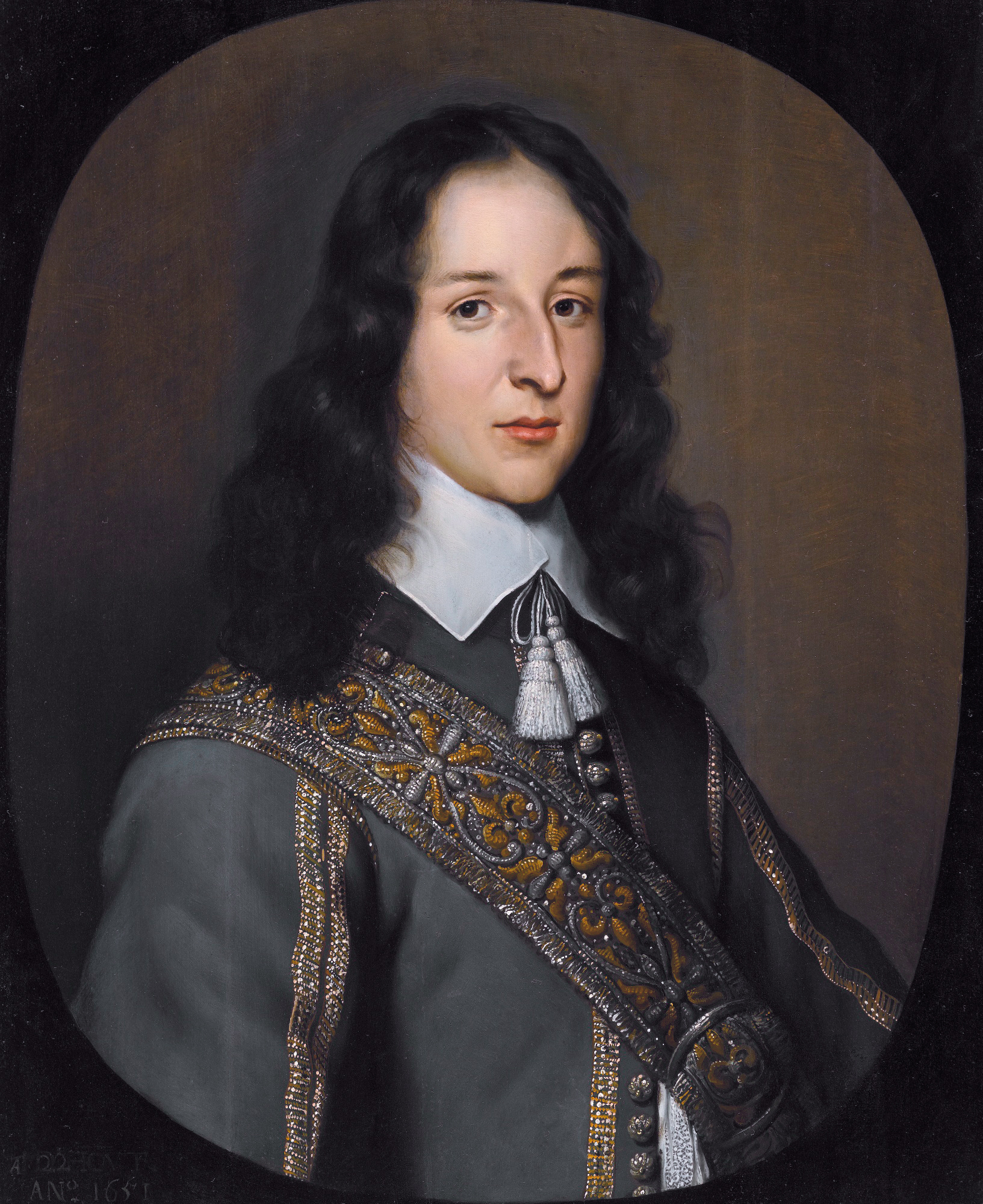 Thomas Belasyse, aged 24, later 1st Earl Fauconberg (1627-1700) oil on panel 73.5 x 59 cm signed b.l.: M. D. HOVT inscribed in a later hand b.l.: A . 22 / ANo 1651